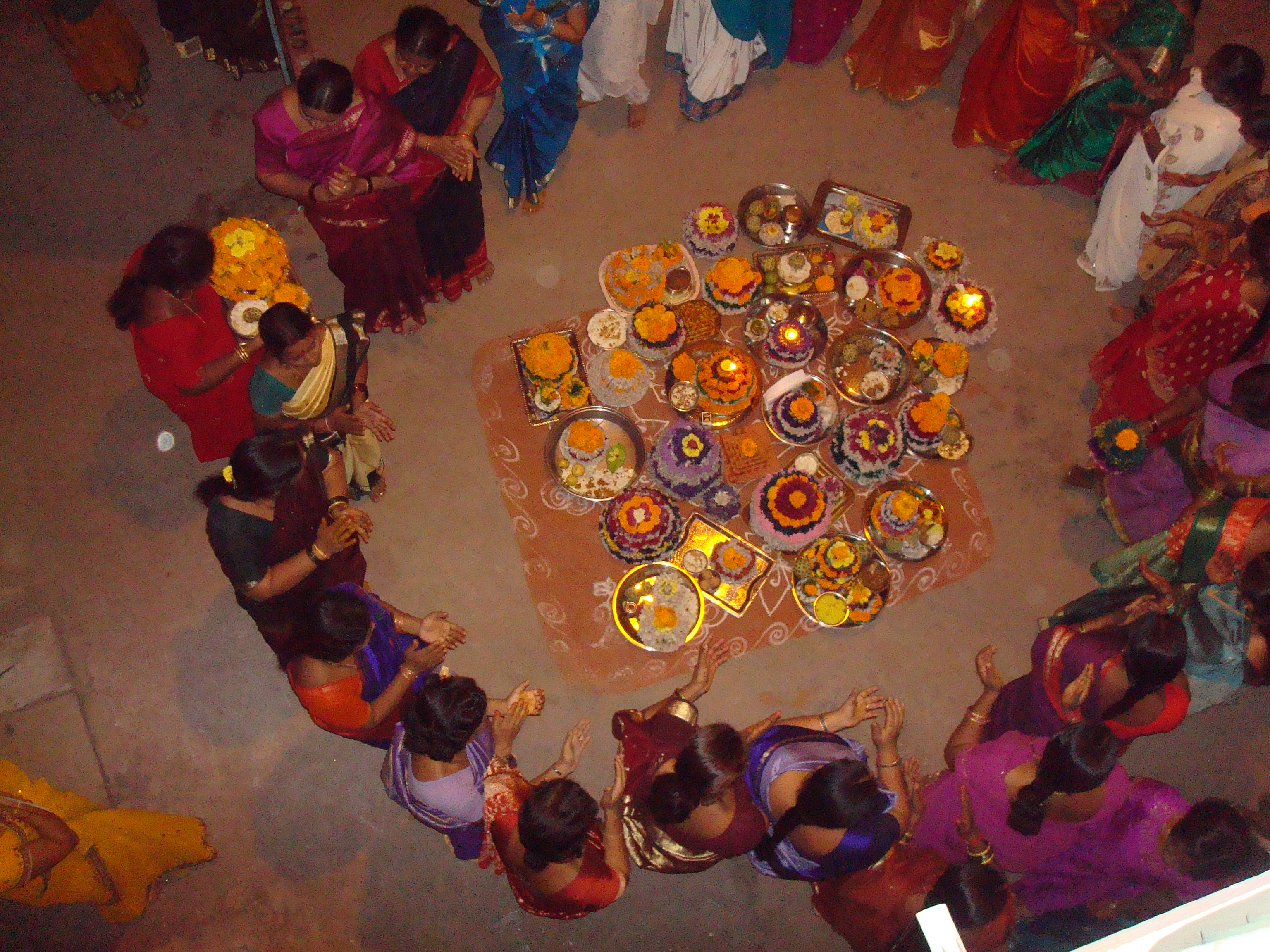 A picture of women dancing around their batukammas.